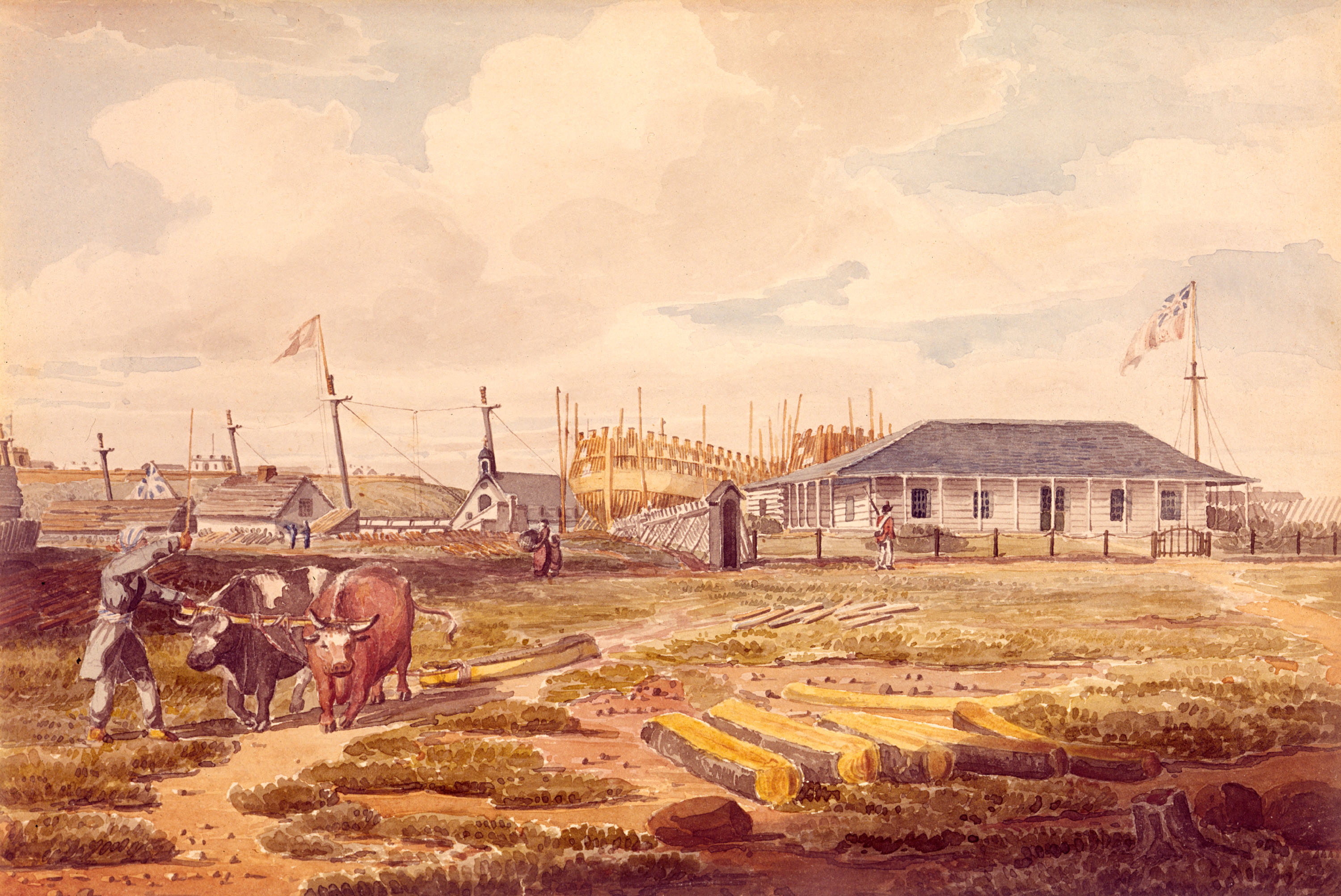 The Commodore's house in the Royal Navy yard wherein were built the ships used on the Great Lakes during the War of 1812. A partly completed ship is visible.